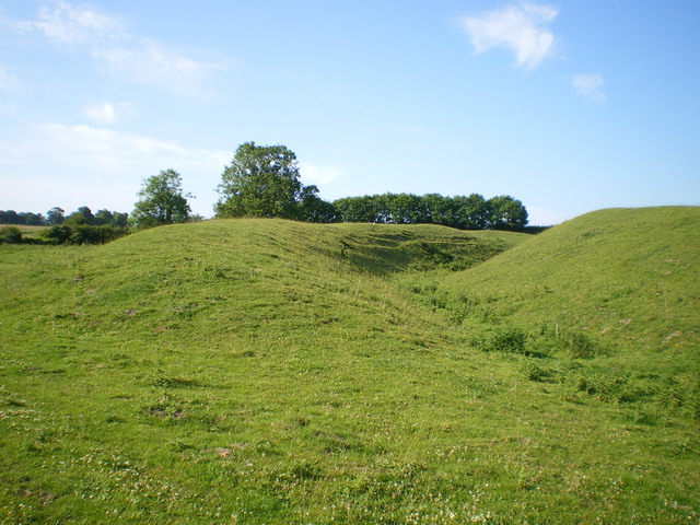 Ramparts on the NW side of Warham Fort A view of the ramparts and the ditch on the NW side of the Iron Age fort.